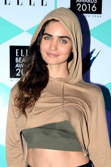 Gabriella Demetriades grace the Elle Beauty Awards 2016